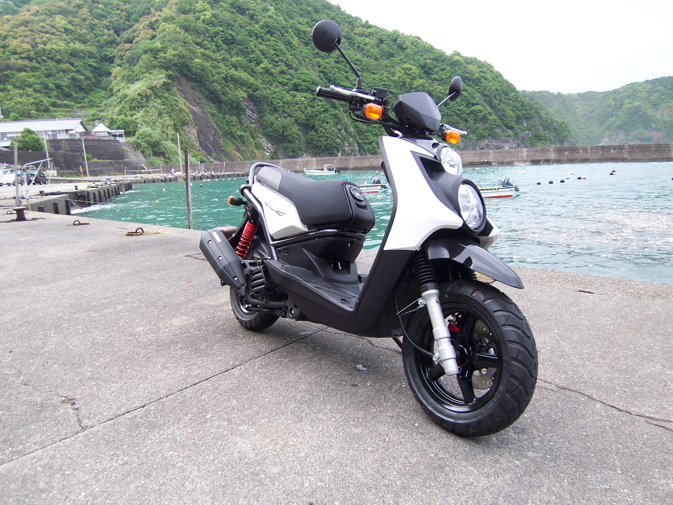 Yahama BW's Fi 125